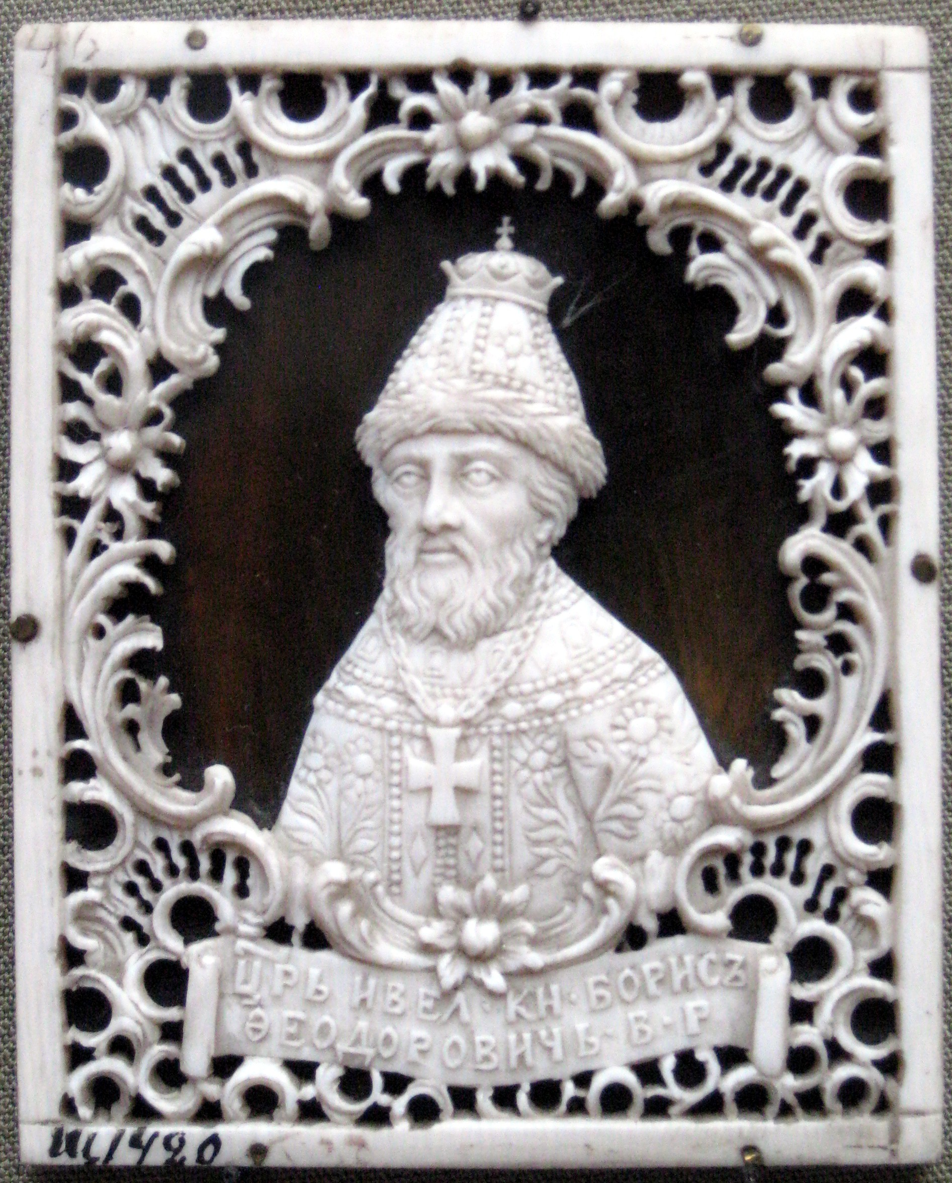 Portraits from serie "Genealogy of russian great princes and tsars, 1750-1775s, bone. Boris Godunov